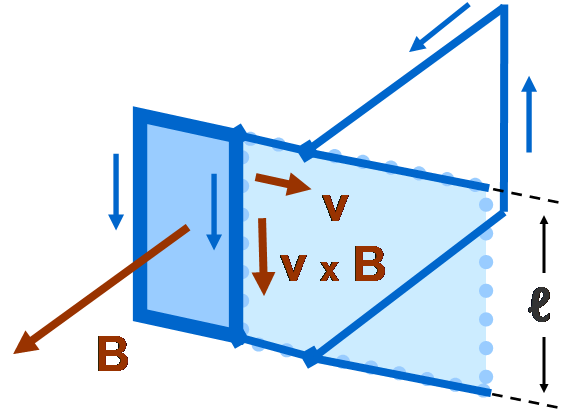 SLiding current loop in magnetic field